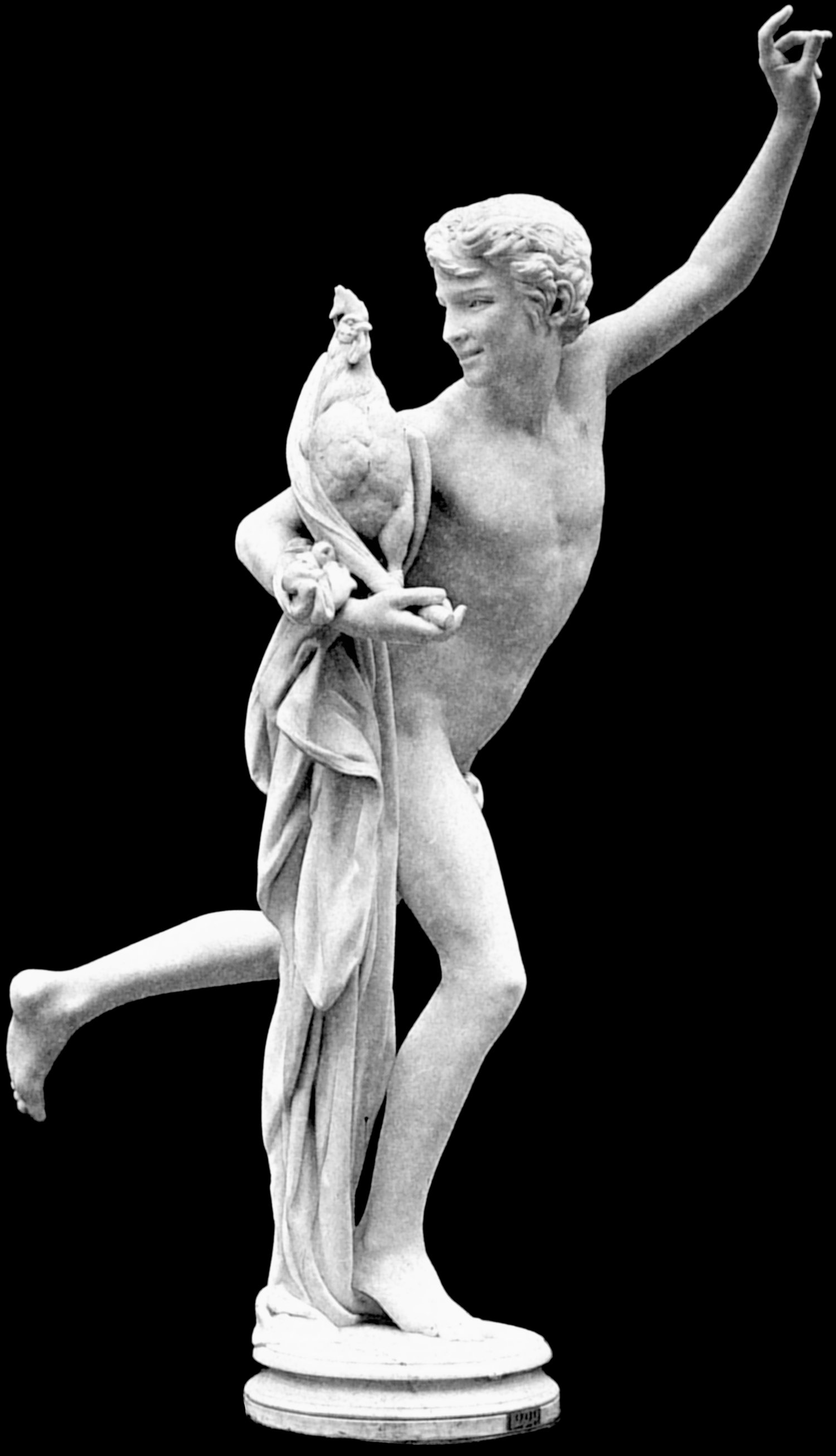 Alexandre Falguière's statue Le Vainqueur au Combat de Coqs (The Winner of the Cockfight). - It is not Le Vainqueur au Combat de Coqs but Le Vainqueur à la course from 1870 (see catalogue Musée d'Orsay